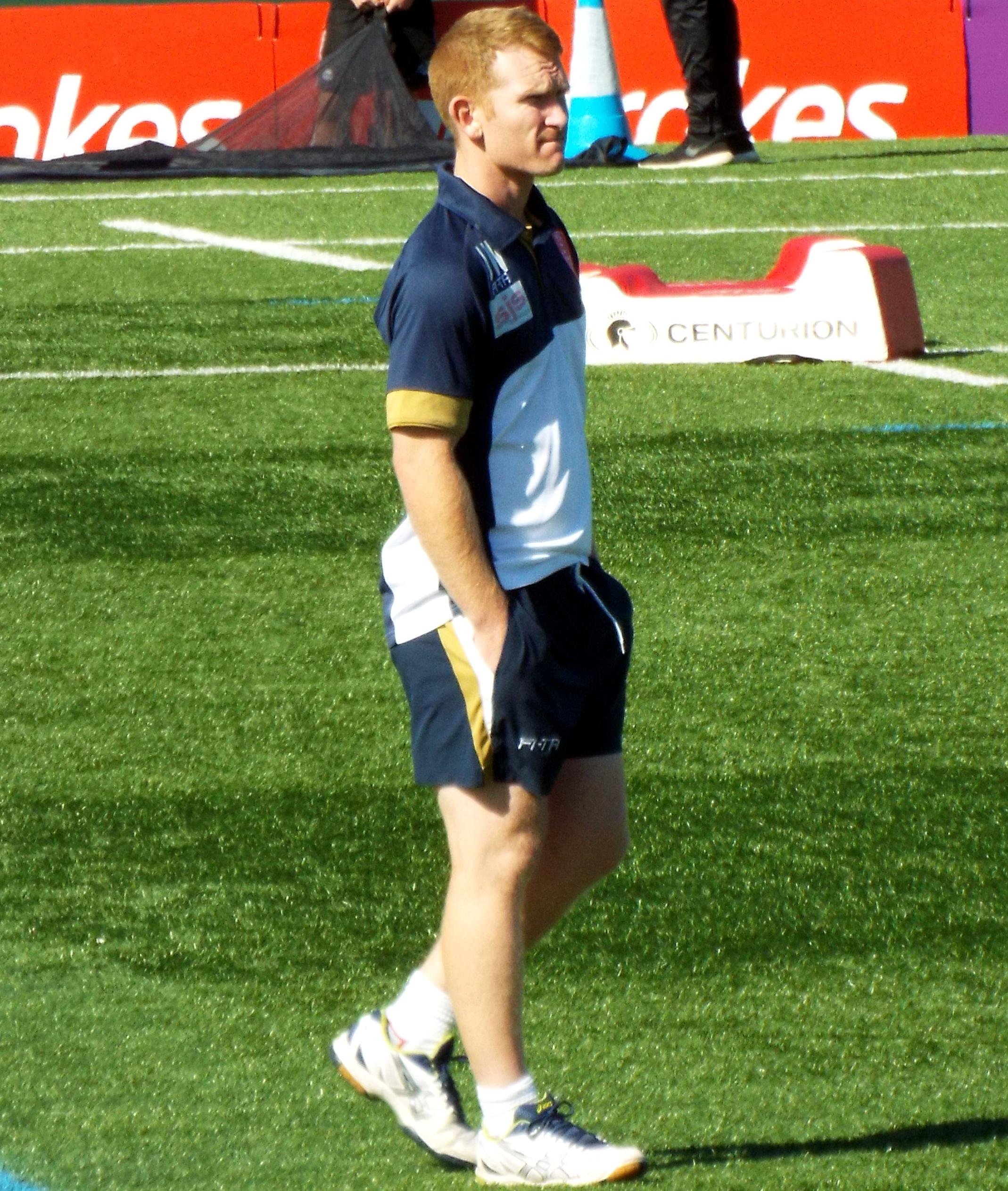 James Webster